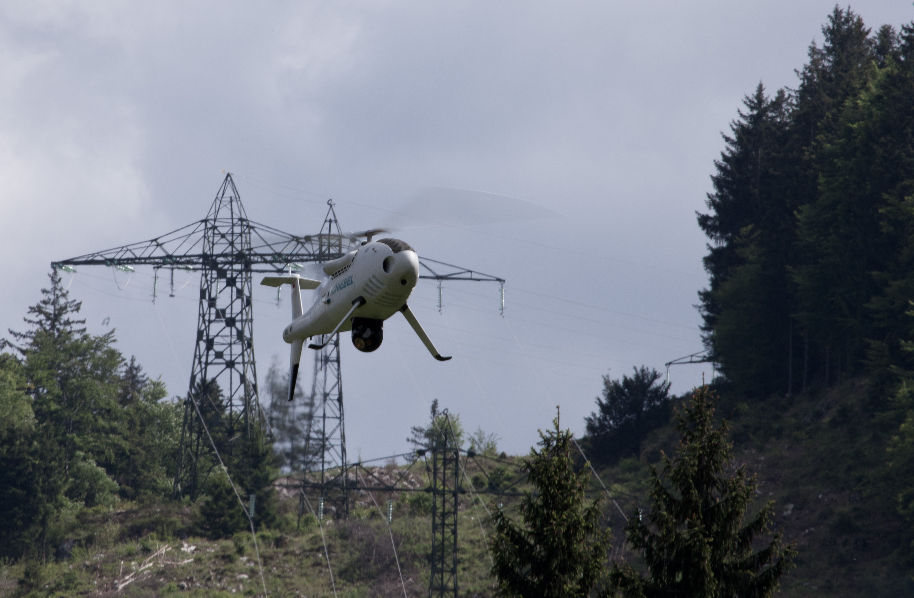 A Schiebel CAMCOPTER® S-100 unmanned helicopter during power line monitoring flights in Upper Austria 2011.